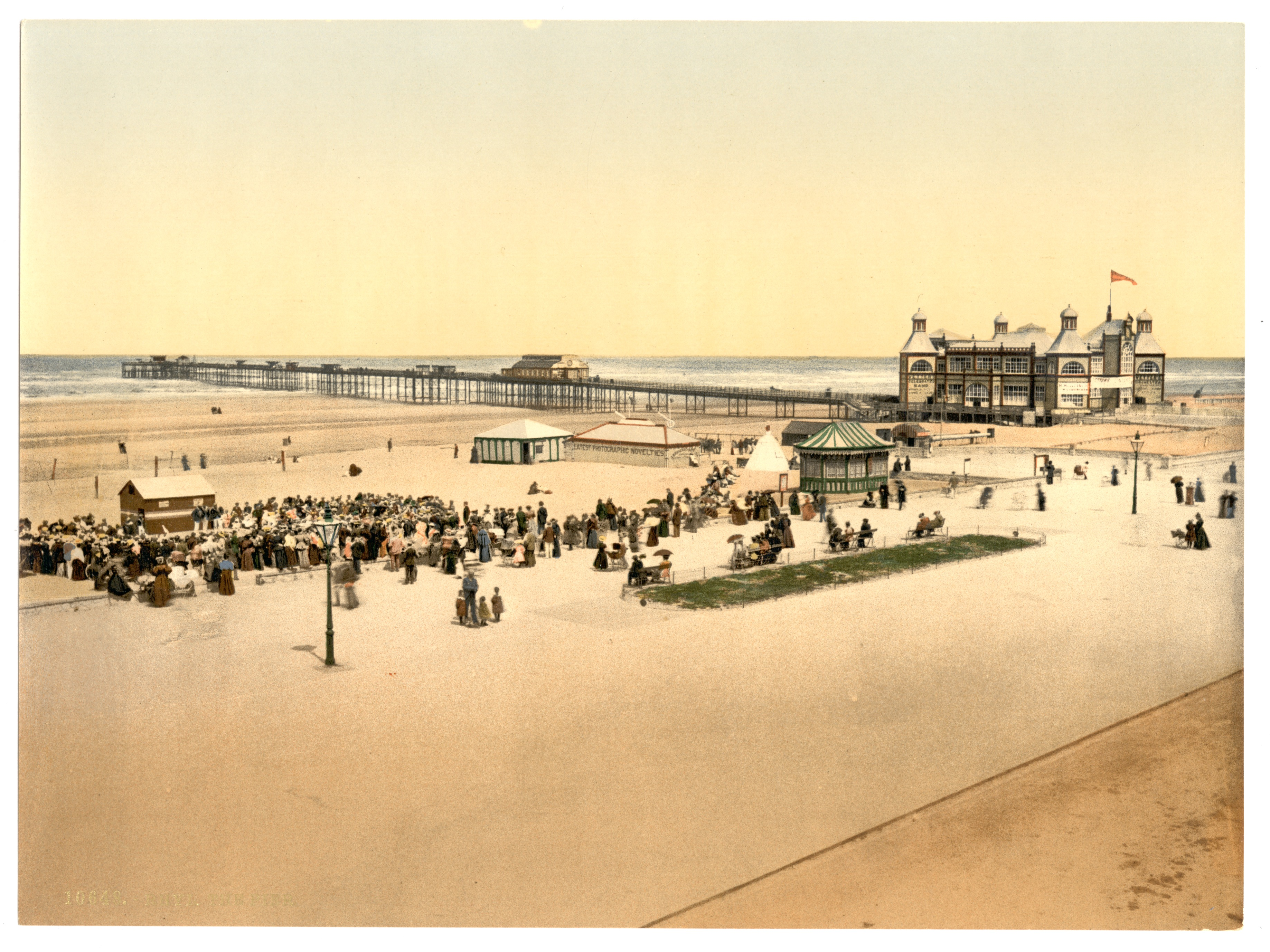 Title from the Detroit Publishing Co., catalogue J-foreign section. Detroit, Mich. : Detroit Photographic Company, 1905.; More information about the Photochrom Print Collection is available at Forms part of: Views of landscape and architecture in Wales in the Photochrom print collection.; Print no. "10648".